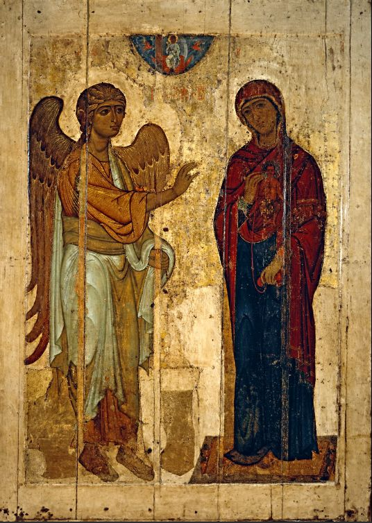 «Annunciation Ustyuzhskoe (from Ustyuzh)». Novgorod icon fom Tretyakov Gallery (Russia).